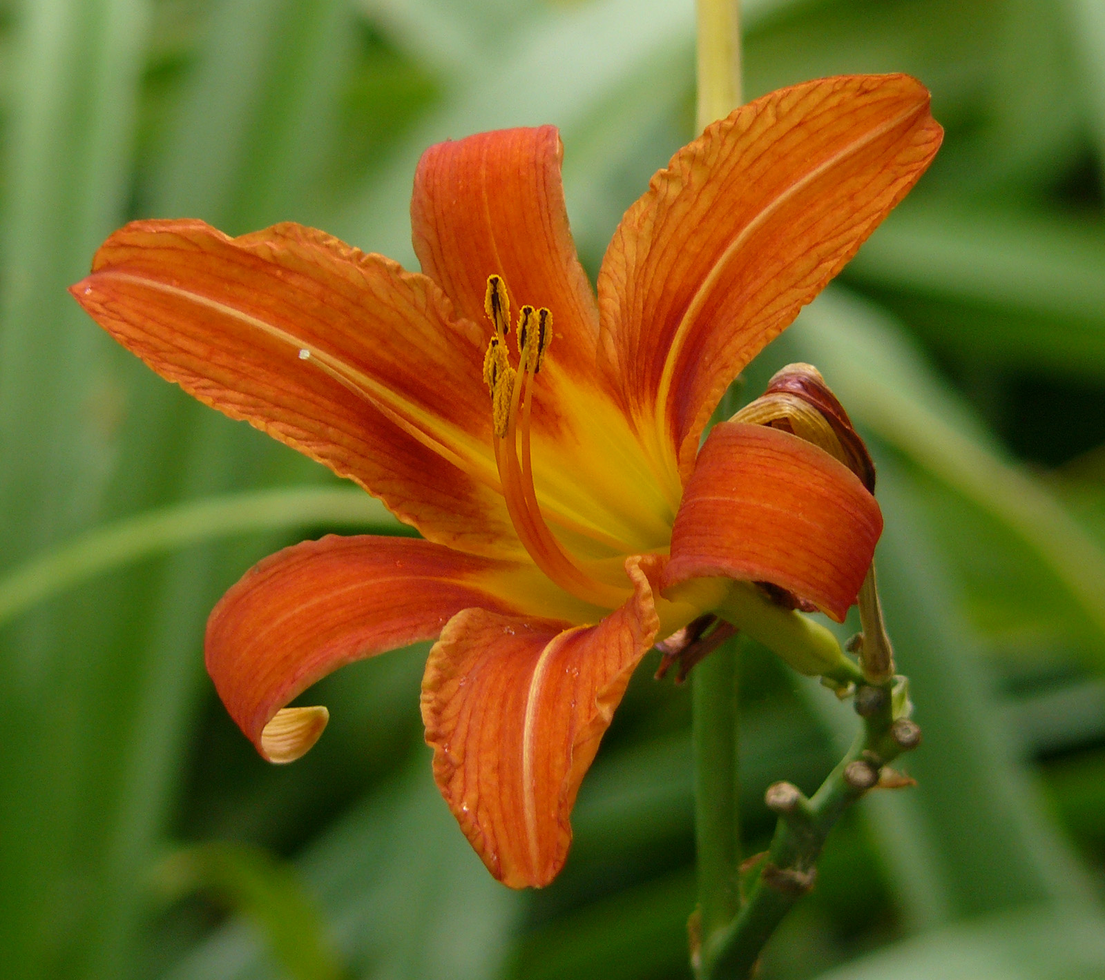 Hemerocallis fulva on the Rhine river in late June